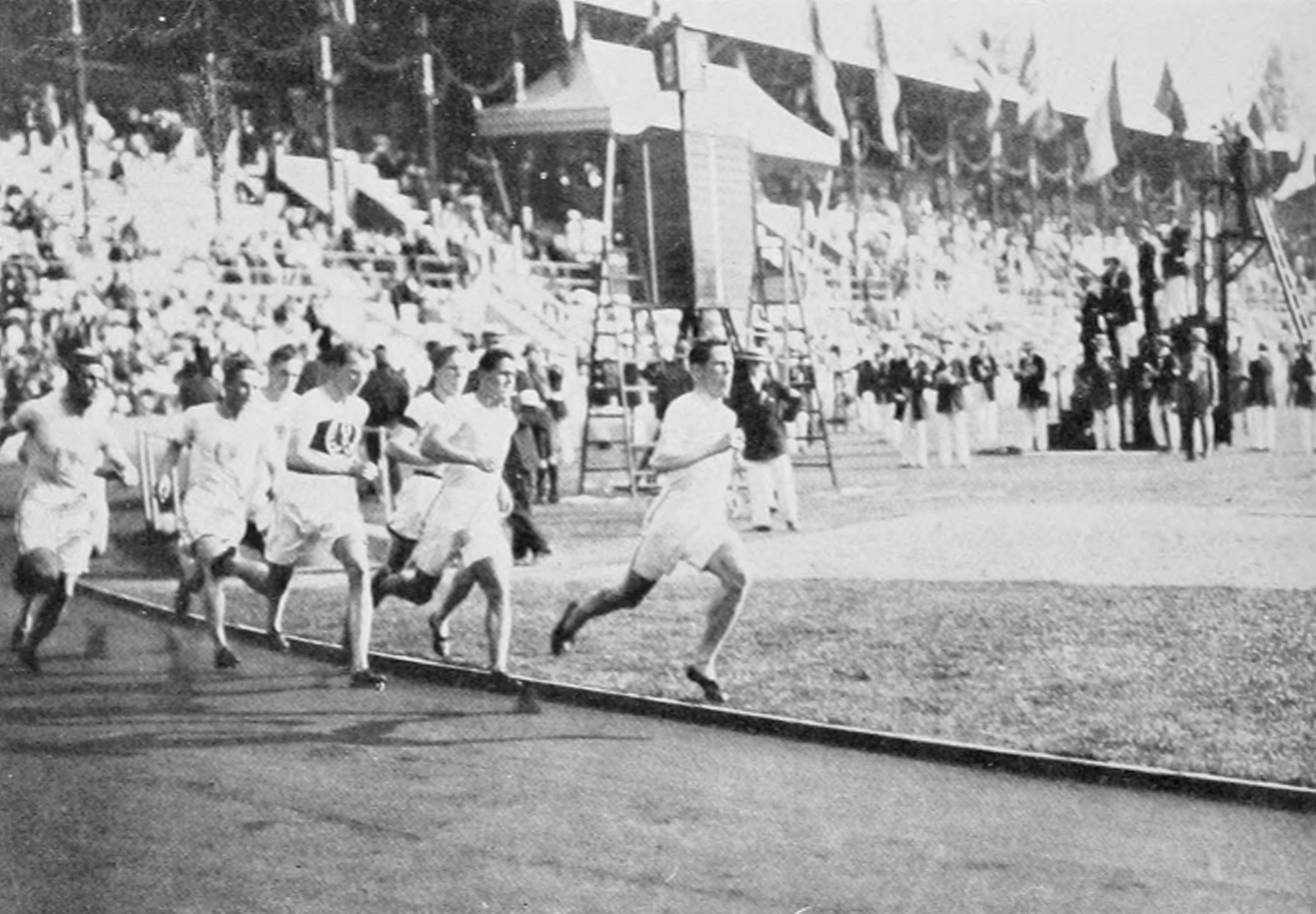 During the men's 800 metre final at the 1912 Summer Olympics.